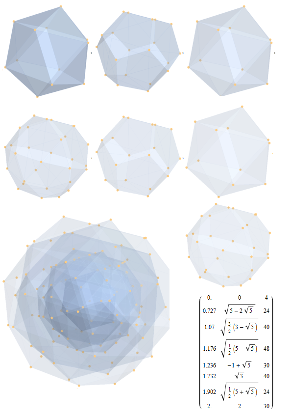 The E8 4_21 polytope is projected to 3D using 3 rows of the E8 to H4 folding matrix giving H3 symmetry. The vertices are sorted and tallied by their 3D norm. Generating the increasingly transparent hull of each set of tallied norms shows: 1) 4 points at the origin 2) 2 icosahedrons 3) 2 dodecahedrons 4) 4 icosahedrons 5) 1 icosadodecahedron 6) 2 dodecahedrons 7) 2 icosahedrons 8) 1 icosadodecahedron for a total of 240 vertices. This is, of course, 2 concentric sets of hulls from the H4 symmetry of the w:600-cell scaled by the golden ratio. For more information, see my blog post here. [1]